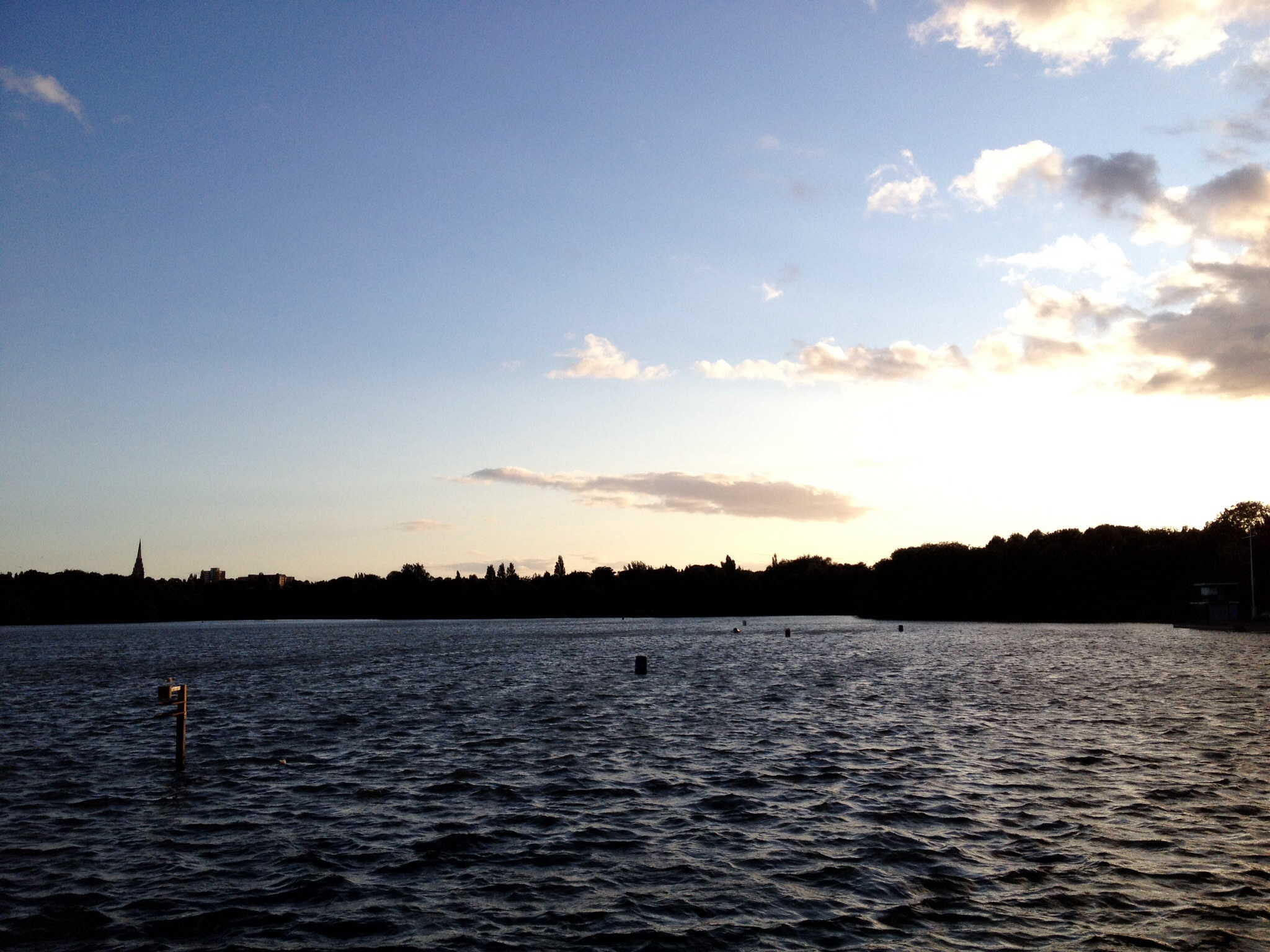 A picture of Edgbaston Reservoir